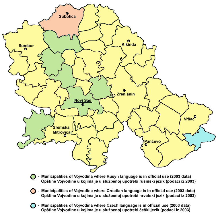 Official usage of Rusyn, Croatian and Czech language in Vojvodina (2003 data).